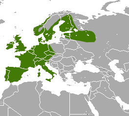 European Hedgehog (Erinaceus europaeus) native range, along with national borders